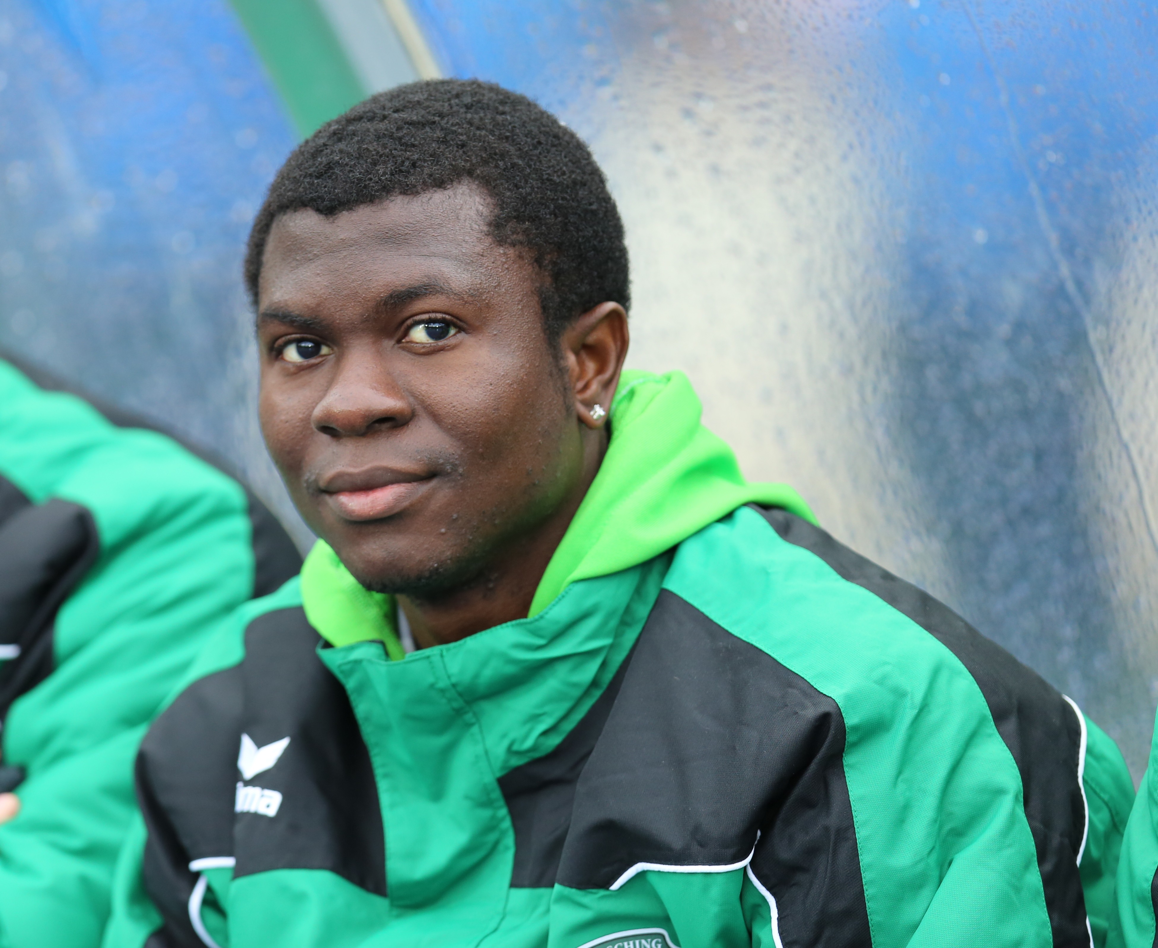 ÖFB-Cupfinale am 30. Mai 2013 im Ernst-Happel-Stadion (FC Pasching gegen FK Austria Wien 1:0). Im Bild der Mittelfeldspieler Yusuf Otubanjo (FC Pasching). The making of this work was supported by Wikimedia Austria. For other files made with the support of Wikimedia Austria, please see the category Supported by Wikimedia Österreich.